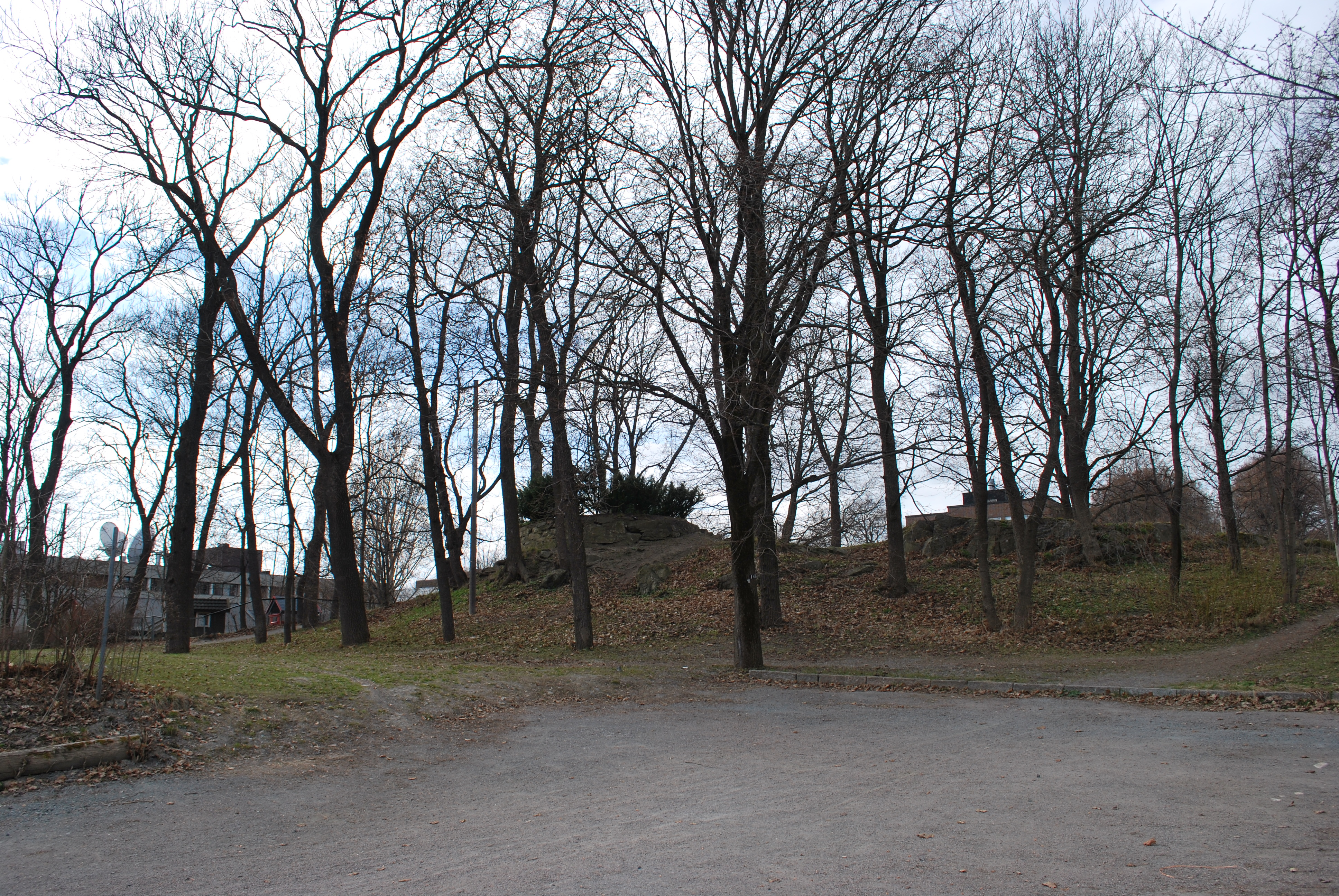 Halvor Blinderens plass, Blindern, Oslo